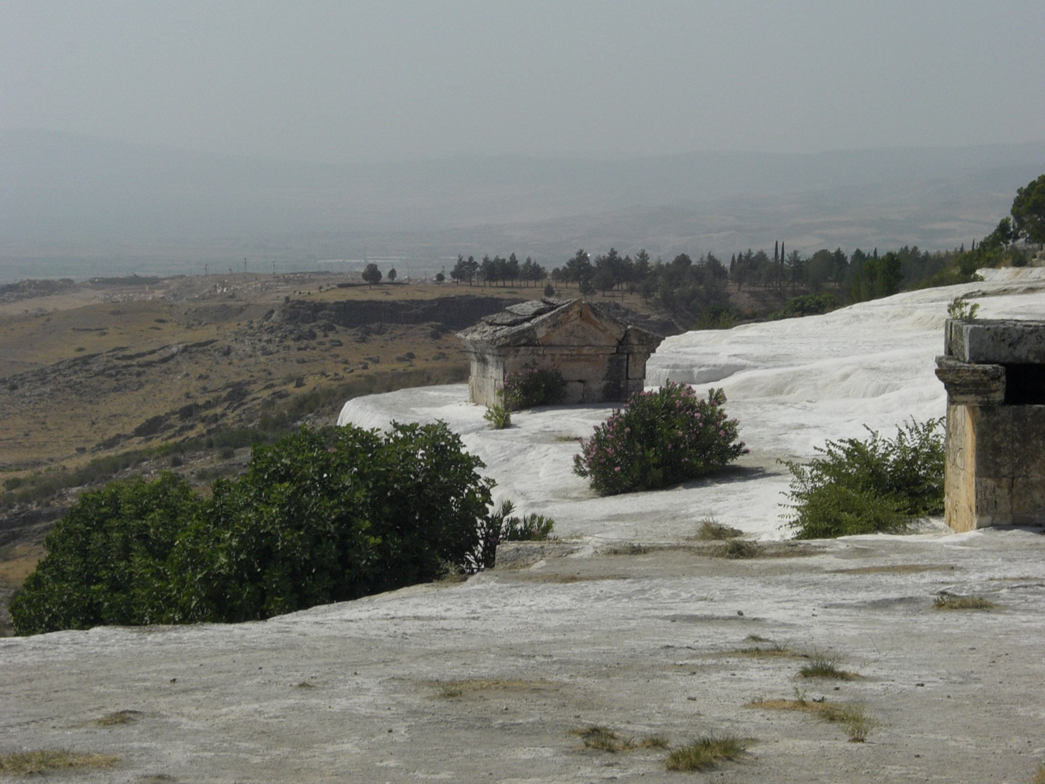 Tumbas de Hierápolis, en Pamukkale, Turquía. Están inundadas de cal.